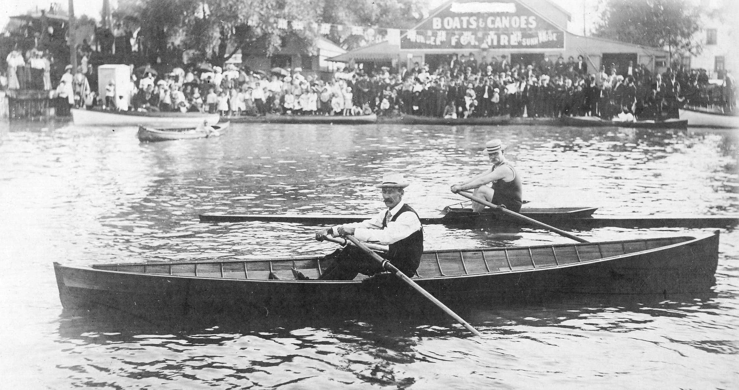 Octavius Laing Hicks in skiff; Ned Hanlan in racing scull. Year is 1904. Location is mouth of Humber River looking west to Devins boathouse.